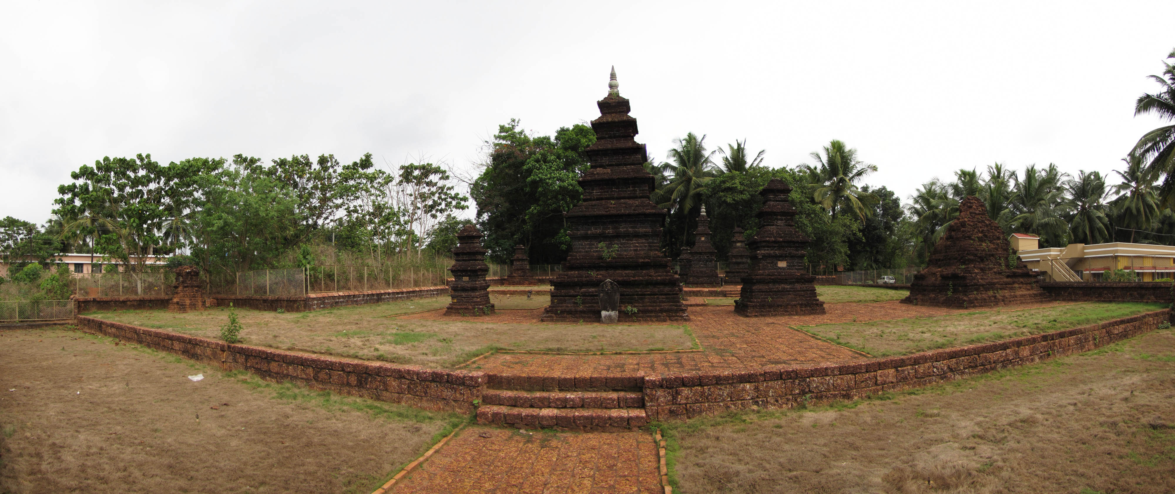 National archaeological monument Jain Tomb, Moodbidri, Karnataka